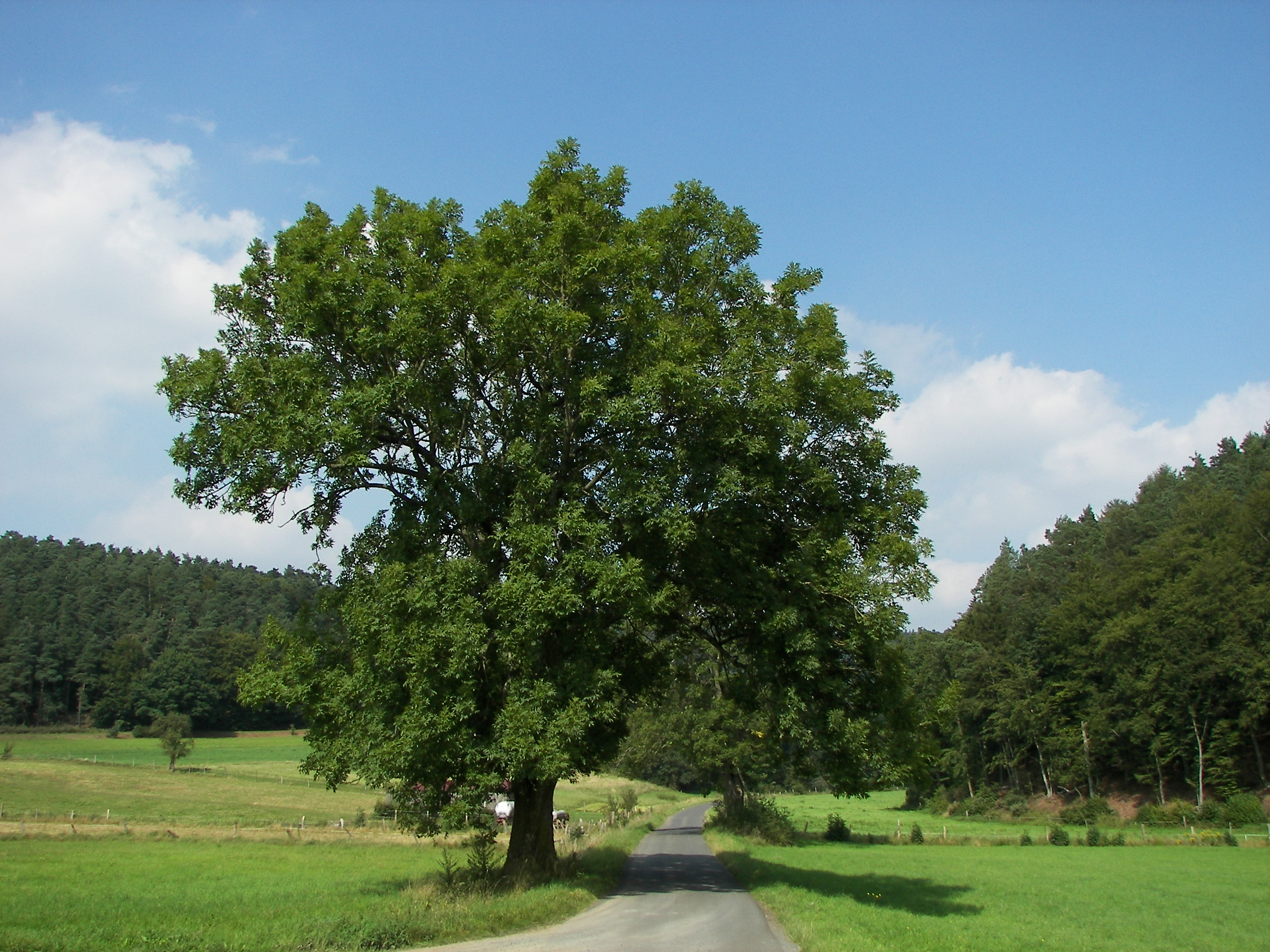 European Ash (Fraxinus excelsior) in the Burgwald, Hesse, Germany